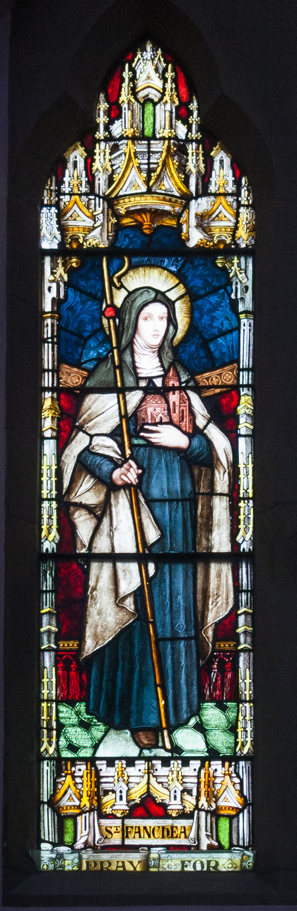 Left light of stained glass window in the sixth bay of the east aisle, depicting St Fanchea, refering apparently to Fuinche Gharbh of Rossory. Franz Borgias Mayer (1848–1926) Alternative names Mayer, FranzDescriptionGerman stained-glass artistDate of birth/death 1848 1926 Work location Munich Authority control : Q21000395 VIAF: 80993958 GND: 136691900 creator QS:P170,Q21000395